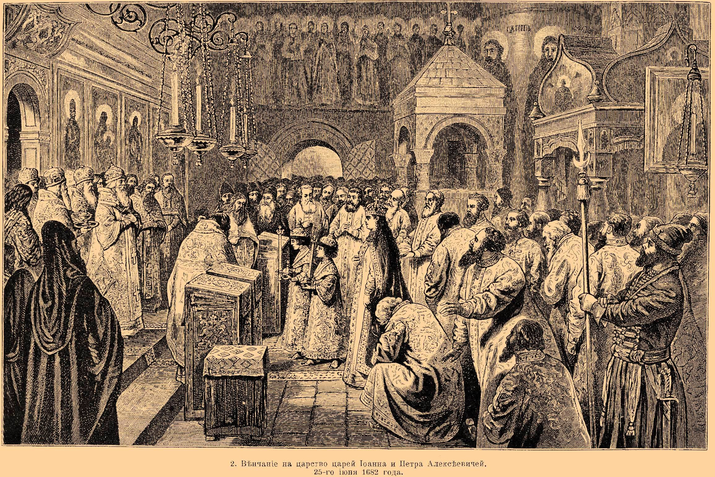 The coronation of Ivan V Alekseyevich and Peter I Alekseyeevich. June 25, 1682. Last «tsarist» coronation in Russia, after the beginning of the «imperial» coronation. Engraving to the drawing by K. Broge. Album «The Coronation of the Russian Monarch. Beginning With Tsar Mikhail Fedorovich To The Emperor Alexander III». - St. Petersburg: Hermann Hoppe Publishing, 1883